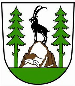 Coat of arms of Category:Wildhaus, canton of St. Gallen, Switzerland